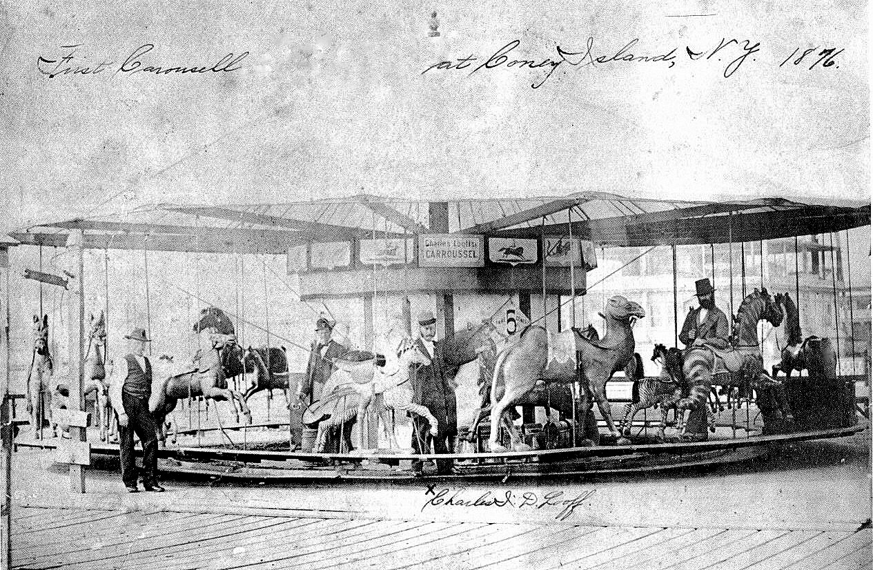 This is a photo of Charles I. D. Looff's carousel which was the first amusement ride to be installed at Coney Island. Other information My family has been in the amusement business since my great-grandfather, Charles I. D. Looff began manufacturing carousels in 1876. Various members of my family have owned amusement parks at various locations around the country.